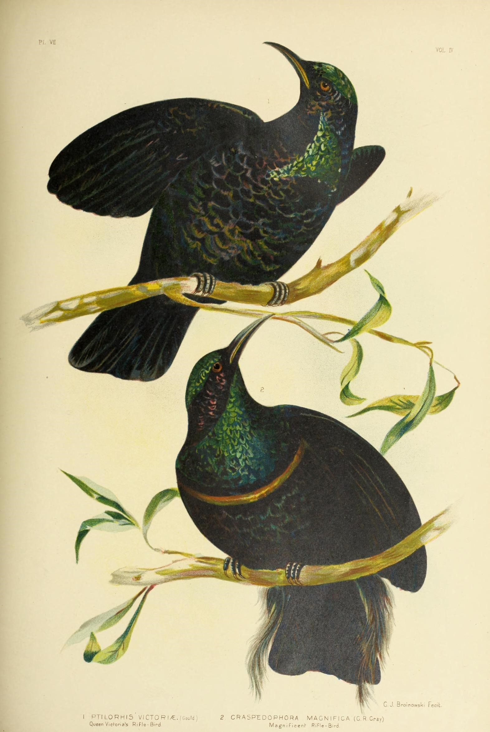 I PTILORHIS' VICTORIA. (Gould) 2 C R A S P~E DOPHORA M AG N I F I C A' (G. R.Cray) Queen Vienna's RiFle-Blr-d MagniFioeof RiFle-Bird.